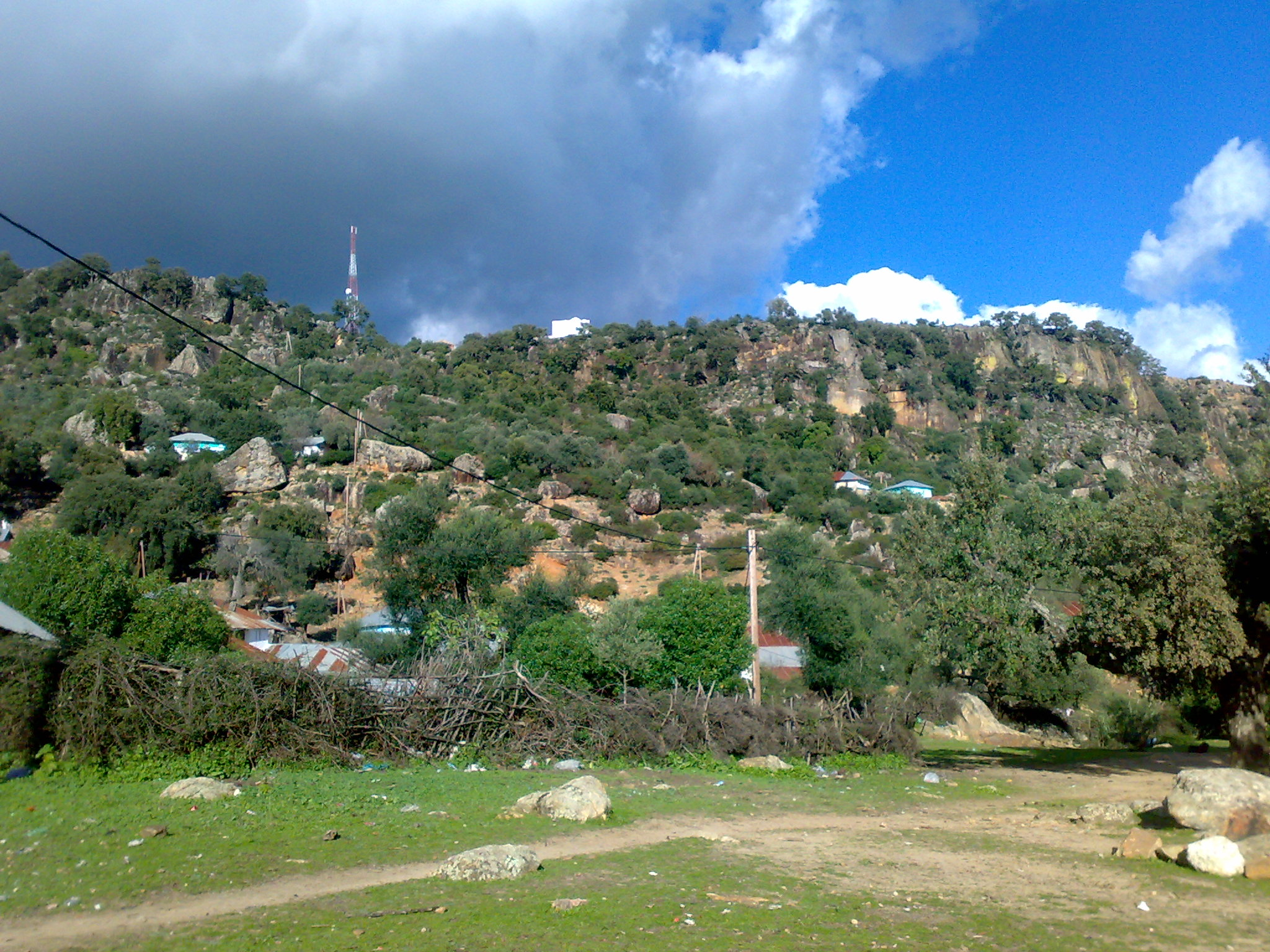 دار الراطي